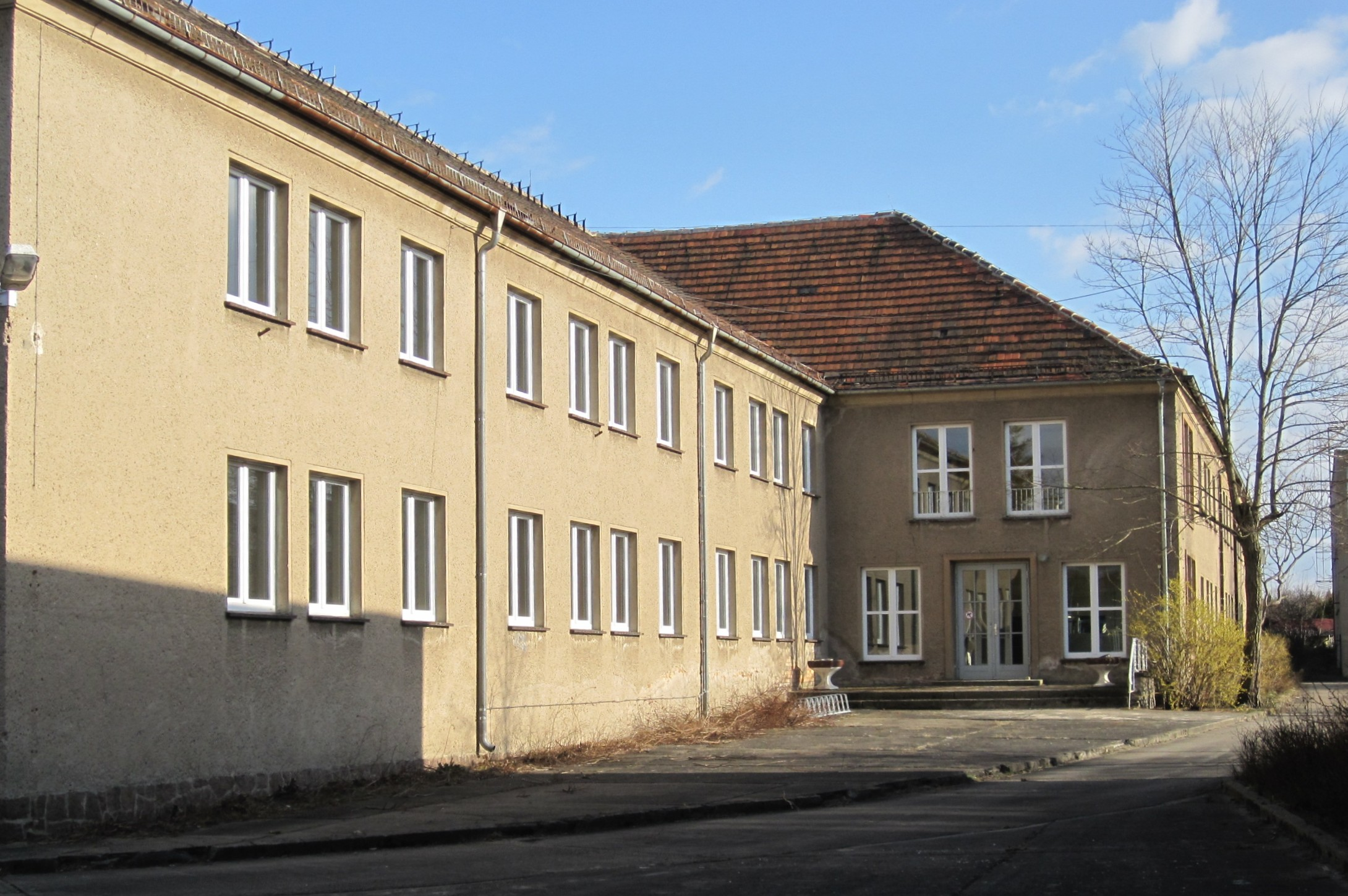 Hostel of the College Teltow-Fläming in Luckenwalde, built in 1953 by the architect Friedrich Schauer as pedagogical boarding school for kindergarten teachers